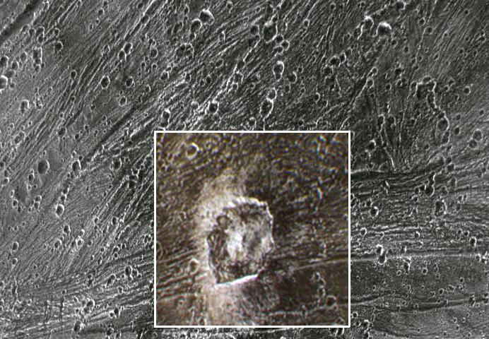 Kittu crater on Ganymede, photographed by Galileo. View of the dark ray crater Kittu on Jupiter's moon, Ganymede. Kittu is seen in approximately true color, as imaged with the Galileo camera's violet, one micrometer, and near infrared filters. The crater shows a bright white central peak and rim, and dark brownish material surrounding it. Diffuse dark rays, sprinkled thinly atop surrounding grooved terrain, emanate from the impact site. The dark material dusted over the surface is probably part of a dark impactor (asteroid or comet) which was strewn across the surface upon impact. The impactor hit grooved terrain, and a straight segment of the crater's rim was created when a portion of the rim collapsed along the trend of an older fault. North is to the bottom of the picture and the sun illuminates the surface from the left. The mosaic, centered at 0 degrees latitude and 335 degrees longitude, covers an area approximately 70 by 100 kilometers. The resolution in the color portion of this image is about 280 meters per picture element, while the resolution in the black and white portion is 145 meters per picture element. The images were taken beginning on April 5, 1997 from 6 hours, 39 minutes, 46 seconds Universal Time at a range of 14252 kilometers by the Solid State Imaging (SSI) system on NASA's Galileo spacecraft.